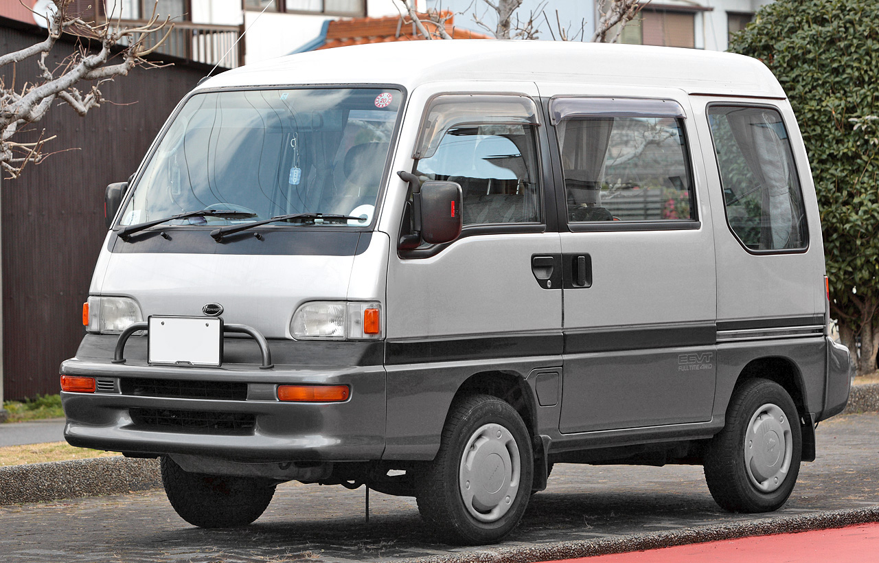 2nd generation Subaru Domingo